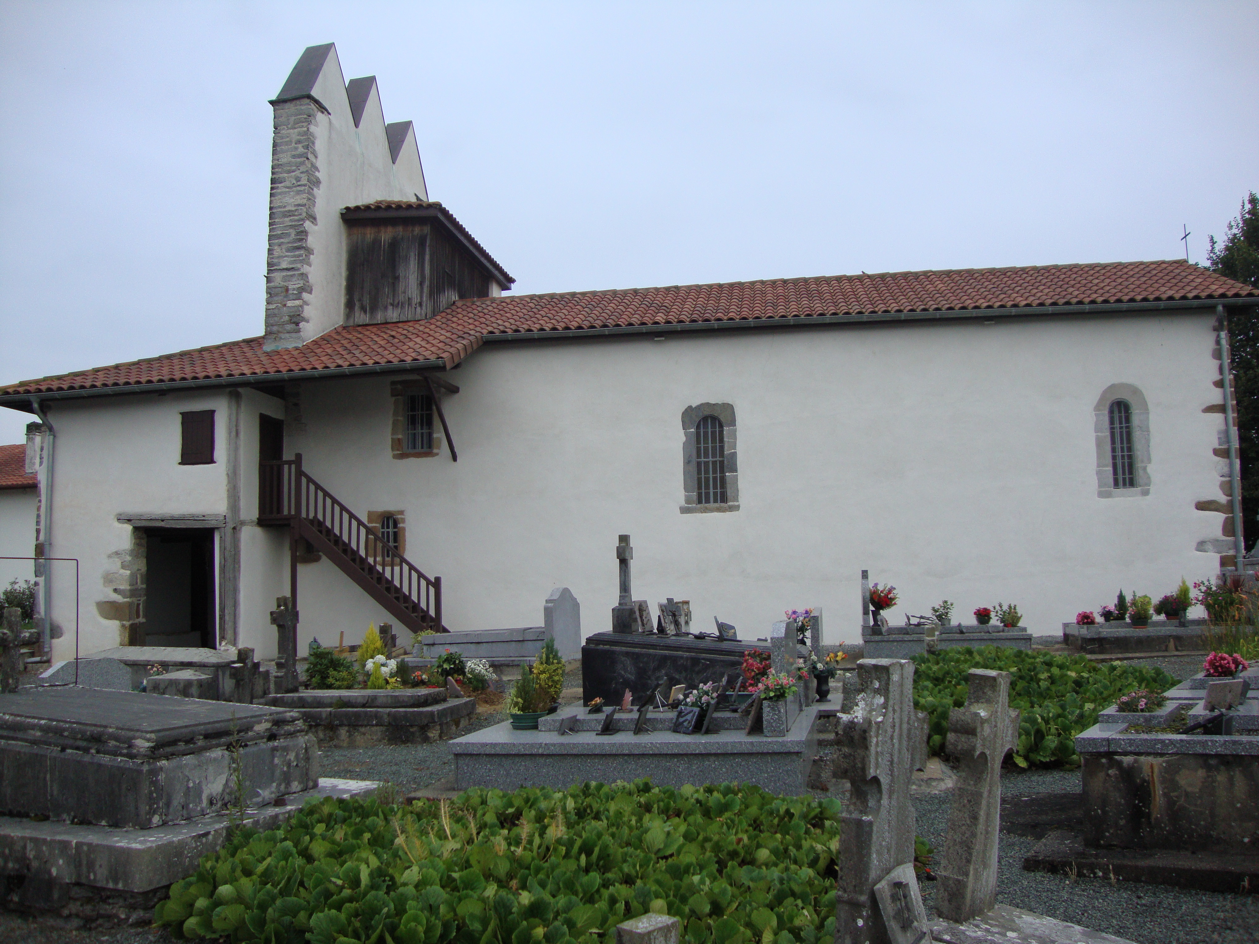 Berraute (Domezain-Berraute, Pyr-Atl, Fr) church with cemetery